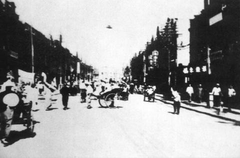 Claimed UFO in Hopeh, China.